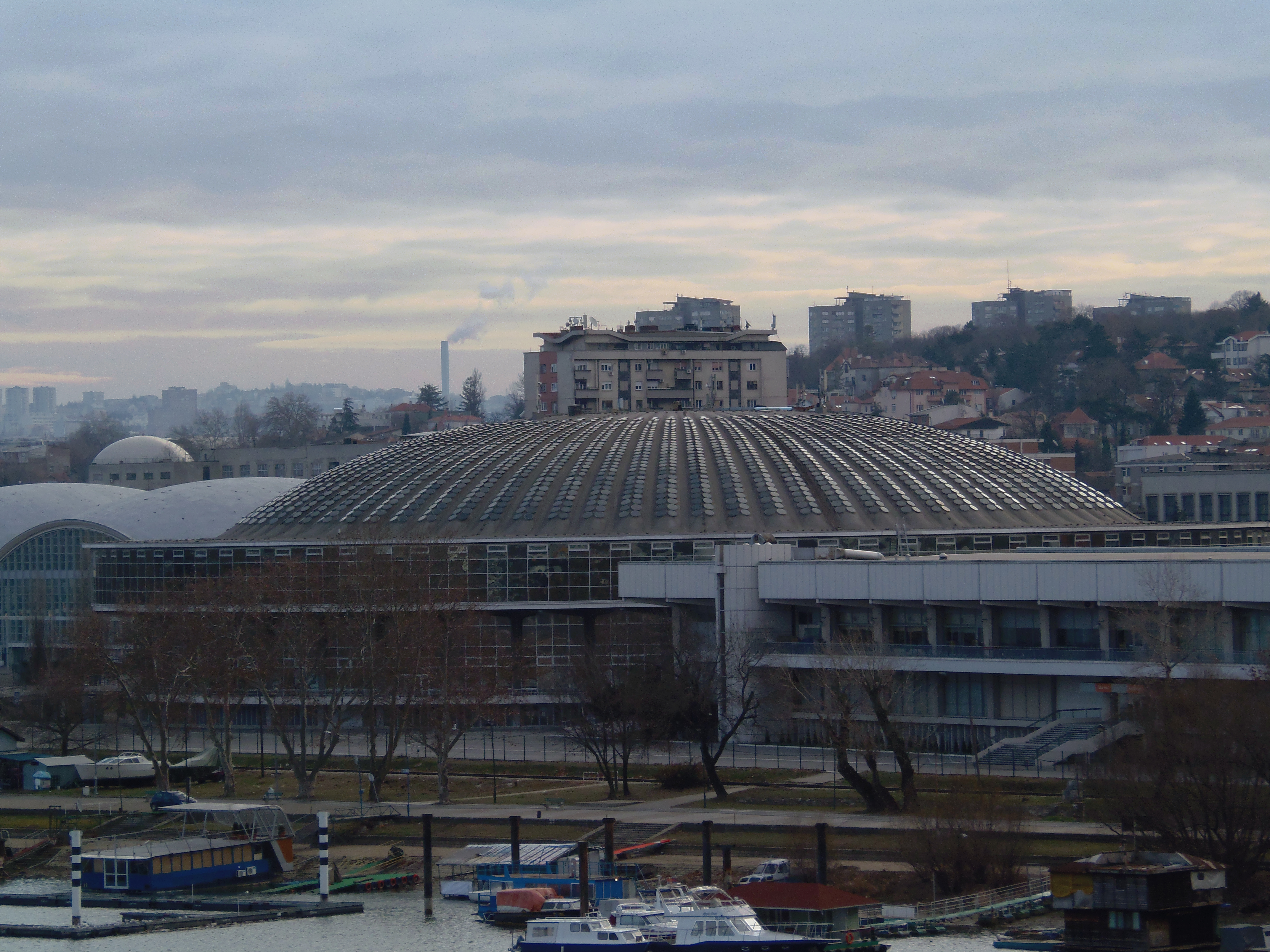 View of the most notable detail of the Belgrade Fair: Hall's top, covered in lots of holes that let the daylight inside.